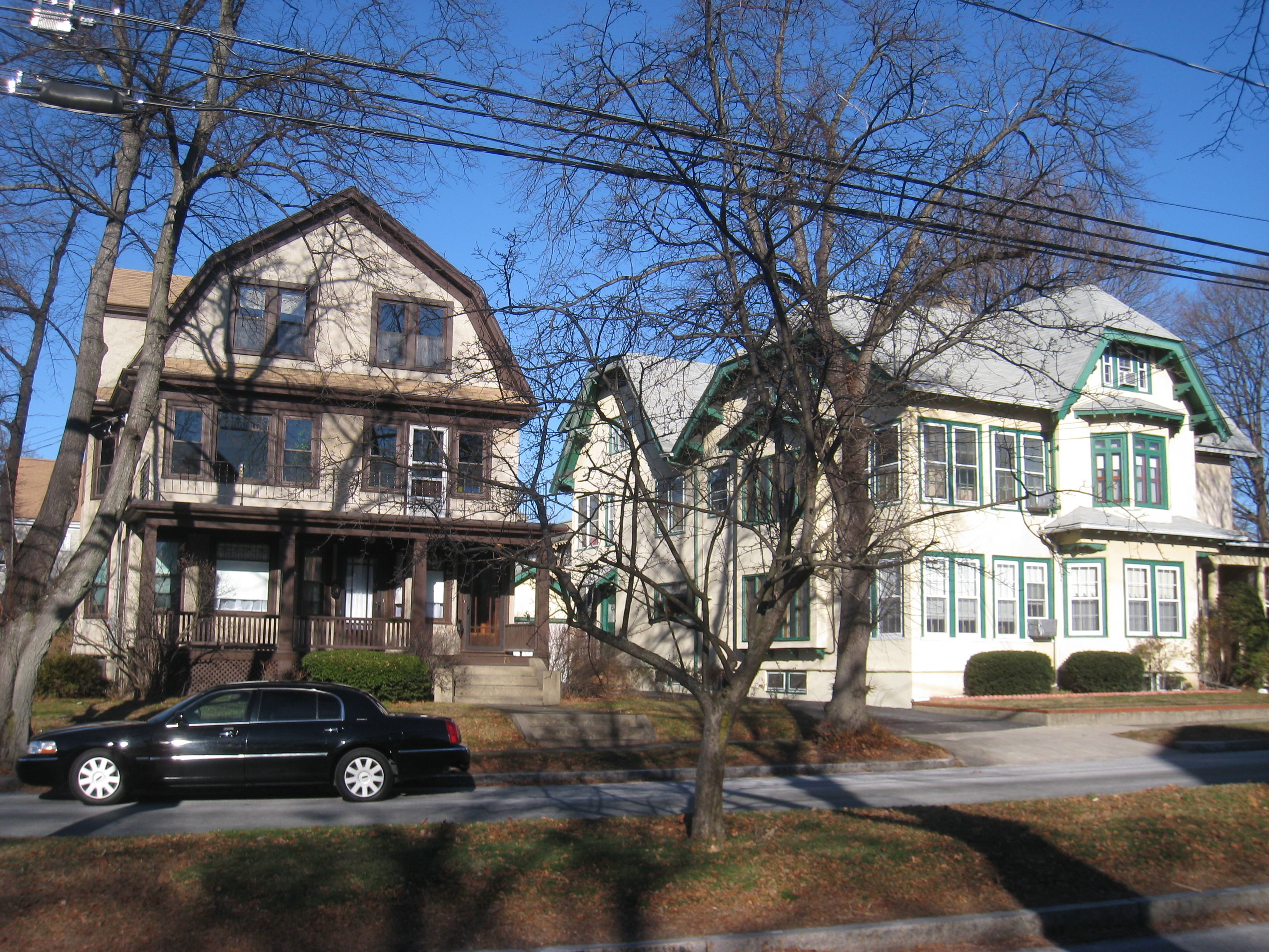 Representative houses, Orvis Road Historic District, Arlington, Massachusetts, USA. Building listed on the National Register of Historic Places.